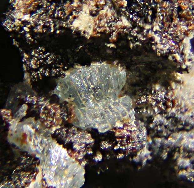 Outstanding sharp marine green alvanite crystals from the type locality (Kurumsak, Karatau Range, Southern Kazakhstan Province, Kazakhstan) in a contrasting matrix. It has a rare chemical composition since it is a ino-vanadate. Alvanite has only been found in three close deposits worldwide.